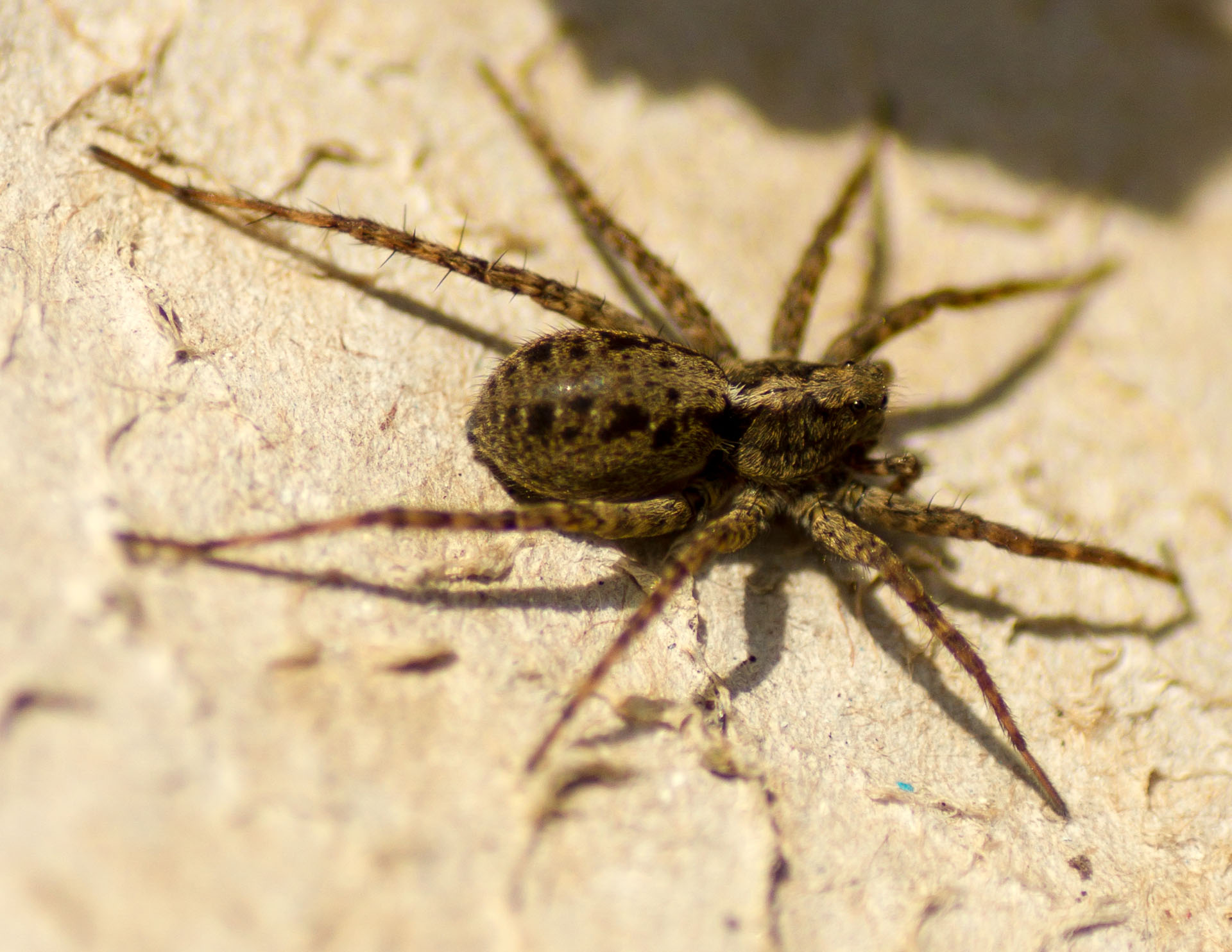 wolf spider